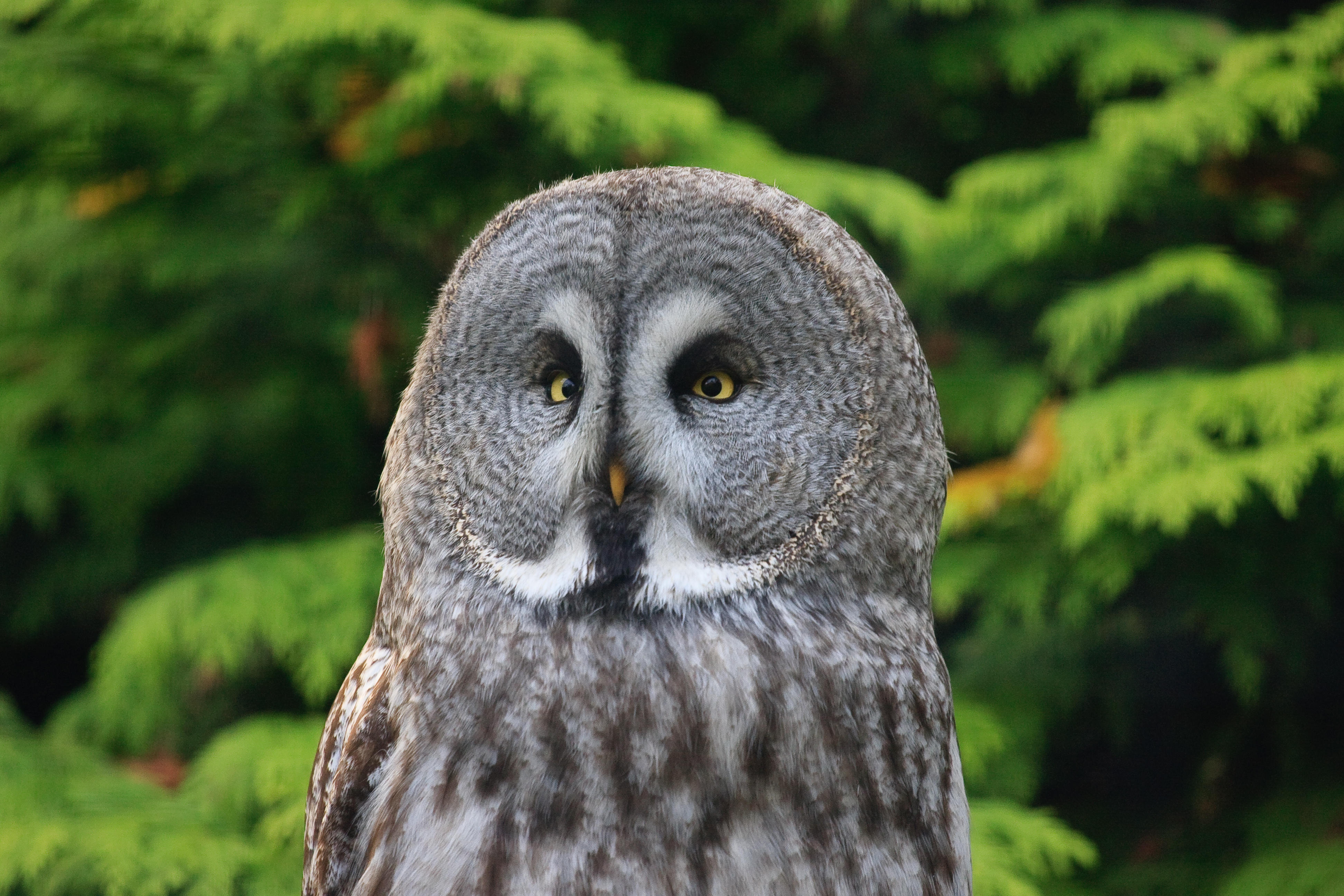 A Great Grey Owl at Dudley Zoo, West Midlands, England.